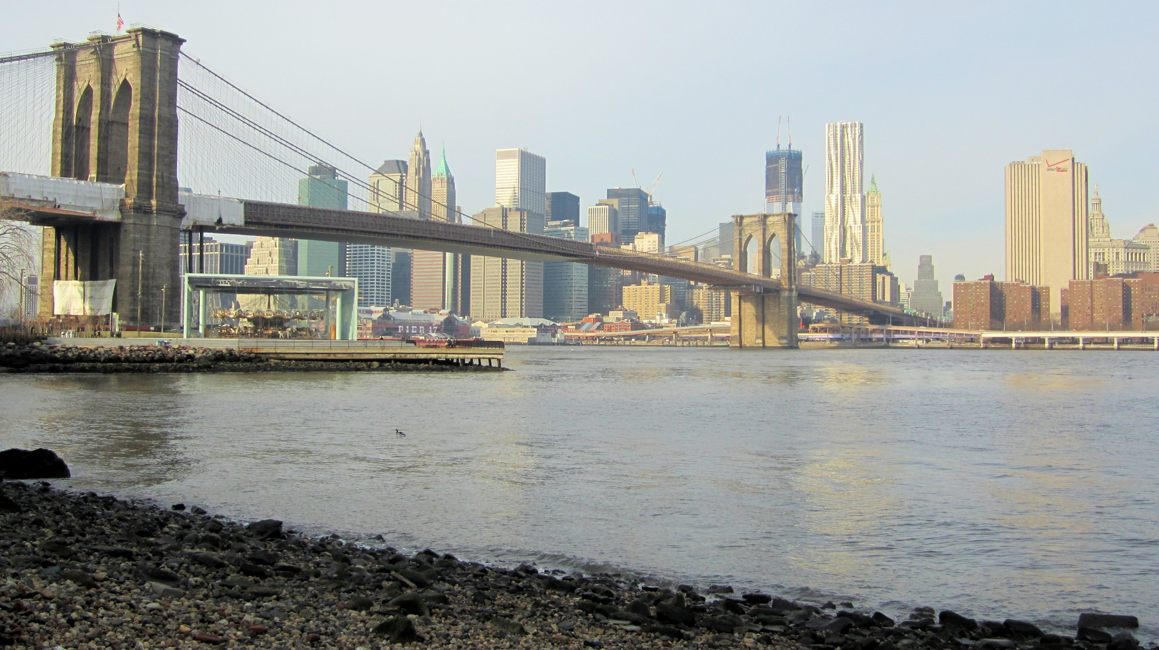 Brooklyn Bridge with Downtown Manhattan in the Background.